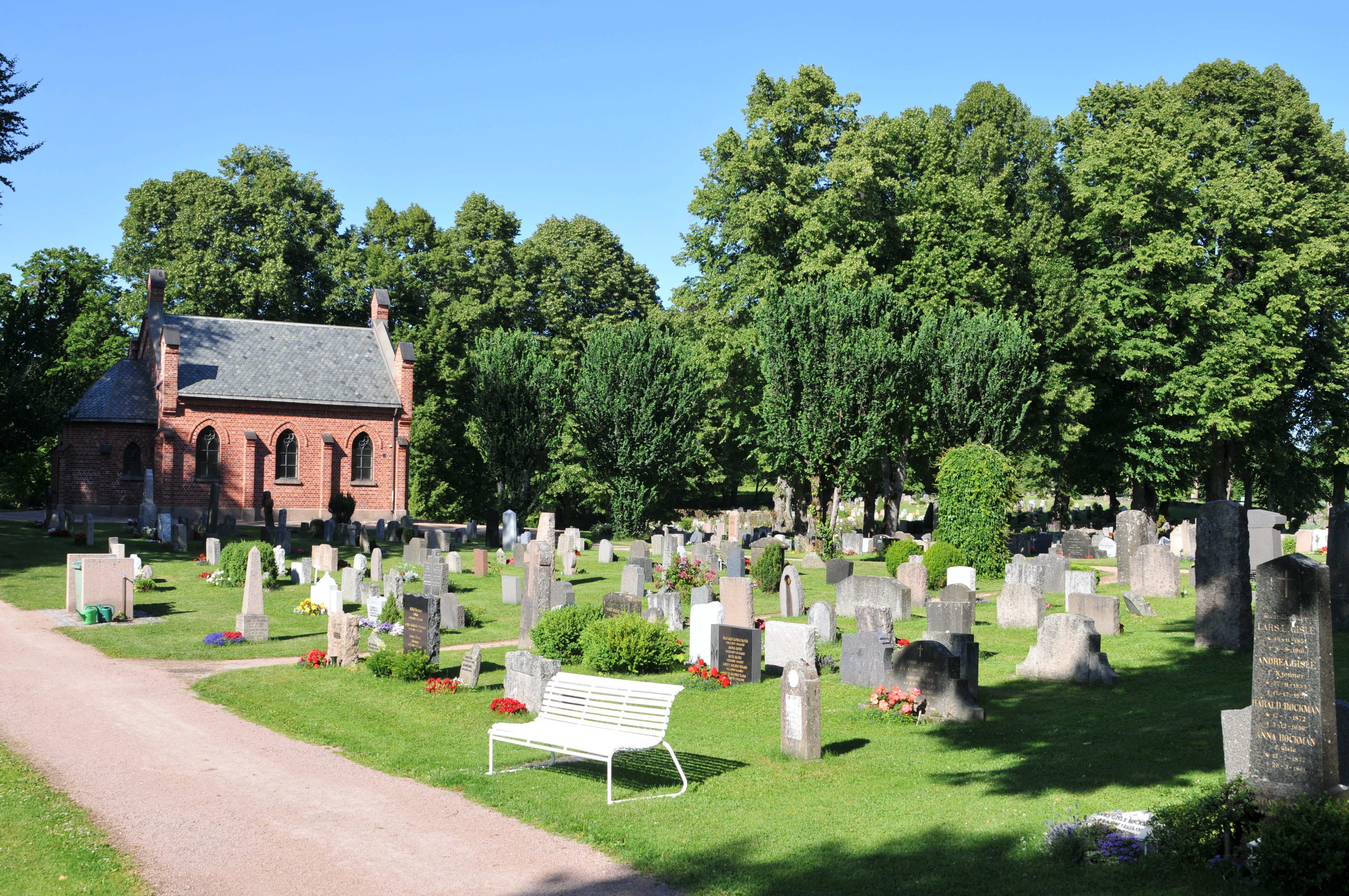 Asker Cemetary, Asker, NorwayNorsk bokmål: Asker kirkegård, Asker, Norge